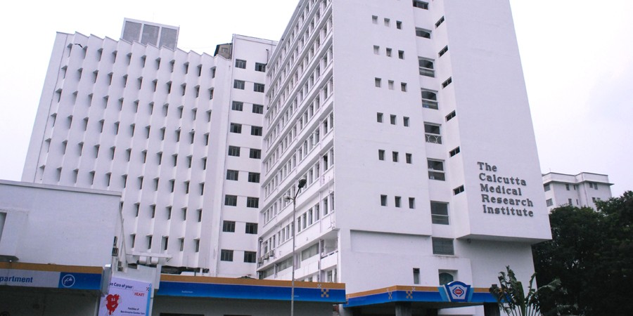 CK Birla Hospitals, comprises three landmark identities, CMRI (The Calcutta Medical Research Institute), BMB (BM Birla Heart Research Centre) and its recent venture, RBH (Rukmani Birla Hospital). It has set milestones in the Healthcare Industry for over four decades. The hospitals are intrinsically bound by three integrated philosophies — Clinical Excellence, Ethical Conduct, and Patient Centricity. These operating philosophies have been pivotal in making the hospitals grow and serve people who are in need of quality healthcare. The three units of CK Birla Hospitals, having established themselves in Kolkata and Jaipur, offer 800 plus beds with comprehensive outpatient and inpatient services. Working on a mission to provide quality healthcare for all, the hospitals so far have performed over 5.5 lakh successful surgeries, 1.9 lakh Cath lab procedures and 22,000 critical cardiac surgeries. Supported by the latest technology and modern infrastructure, these hospitals continue to set new standards of Cure and Care.